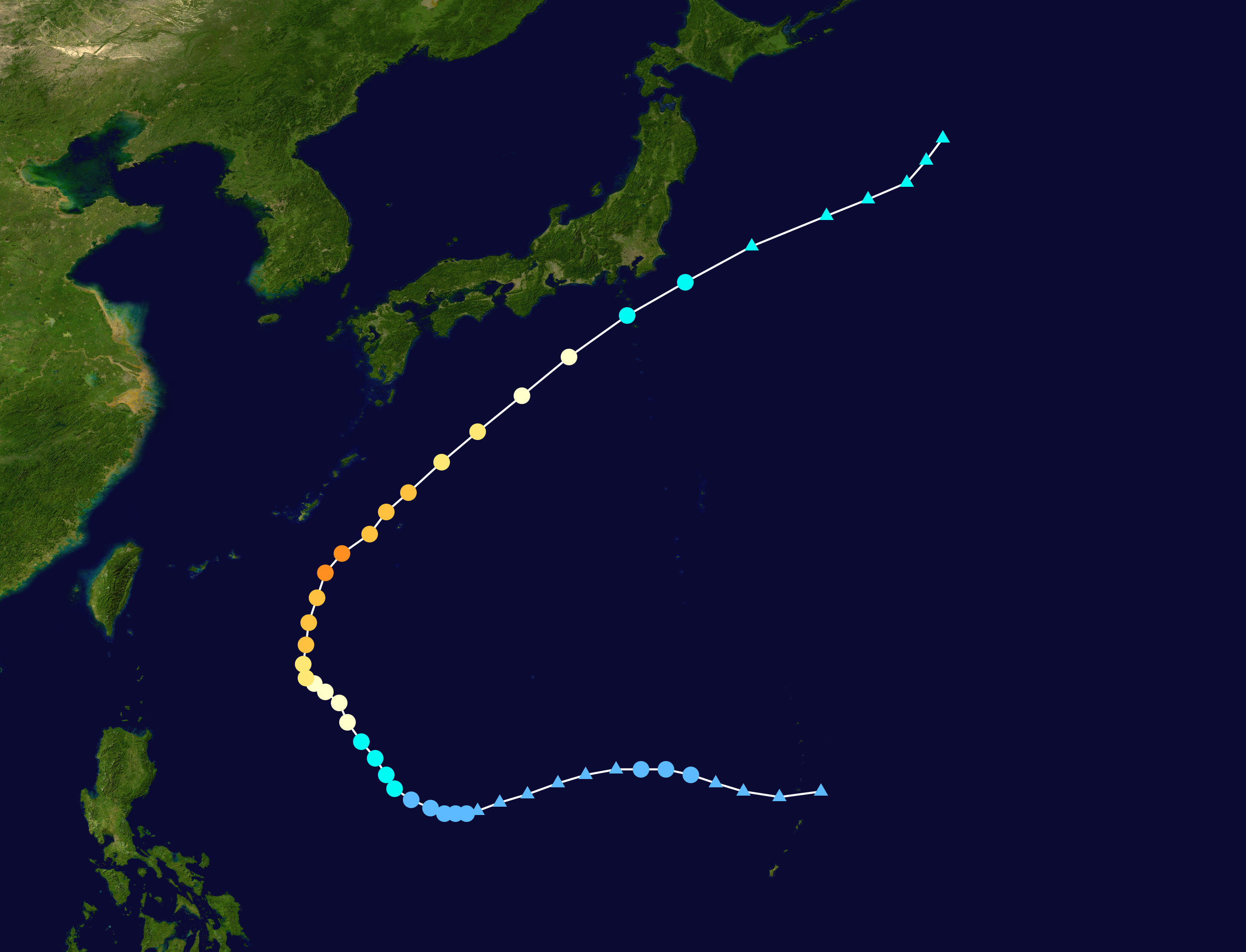 Track map of Typhoon Chaba of the 2010 Pacific typhoon season. The points show the location of the storm at 6-hour intervals. The colour represents the storm's maximum sustained wind speeds as classified in the Saffir–Simpson scale (see below), and the shape of the data points represent the nature of the storm, according to the legend below. Saffir–Simpson scale Tropical depression≤38 mph≤62 km/h Category 3111–129 mph178–208 km/h Tropical storm39–73 mph63–118 km/h Category 4130–156 mph209–251 km/h Category 174–95 mph119–153 km/h Category 5≥157 mph≥252 km/h Category 296–110 mph154–177 km/h Unknown Storm type Tropical cyclone Subtropical cyclone Extratropical cyclone / Remnant low / Tropical disturbance / Monsoon depression